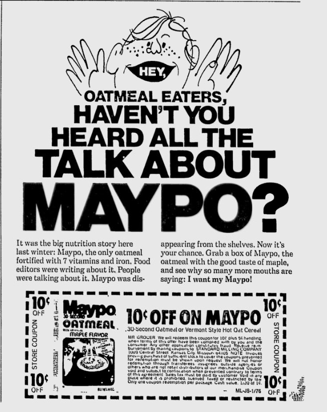 Scan of a 1976 magazine ad for Maypo cereal.